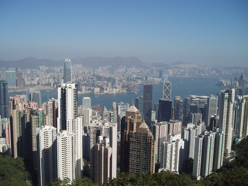 The view of Hong Kong, Kowloon and Victoria Harbour from the top of Victoria Peak on Hong Kong Island.